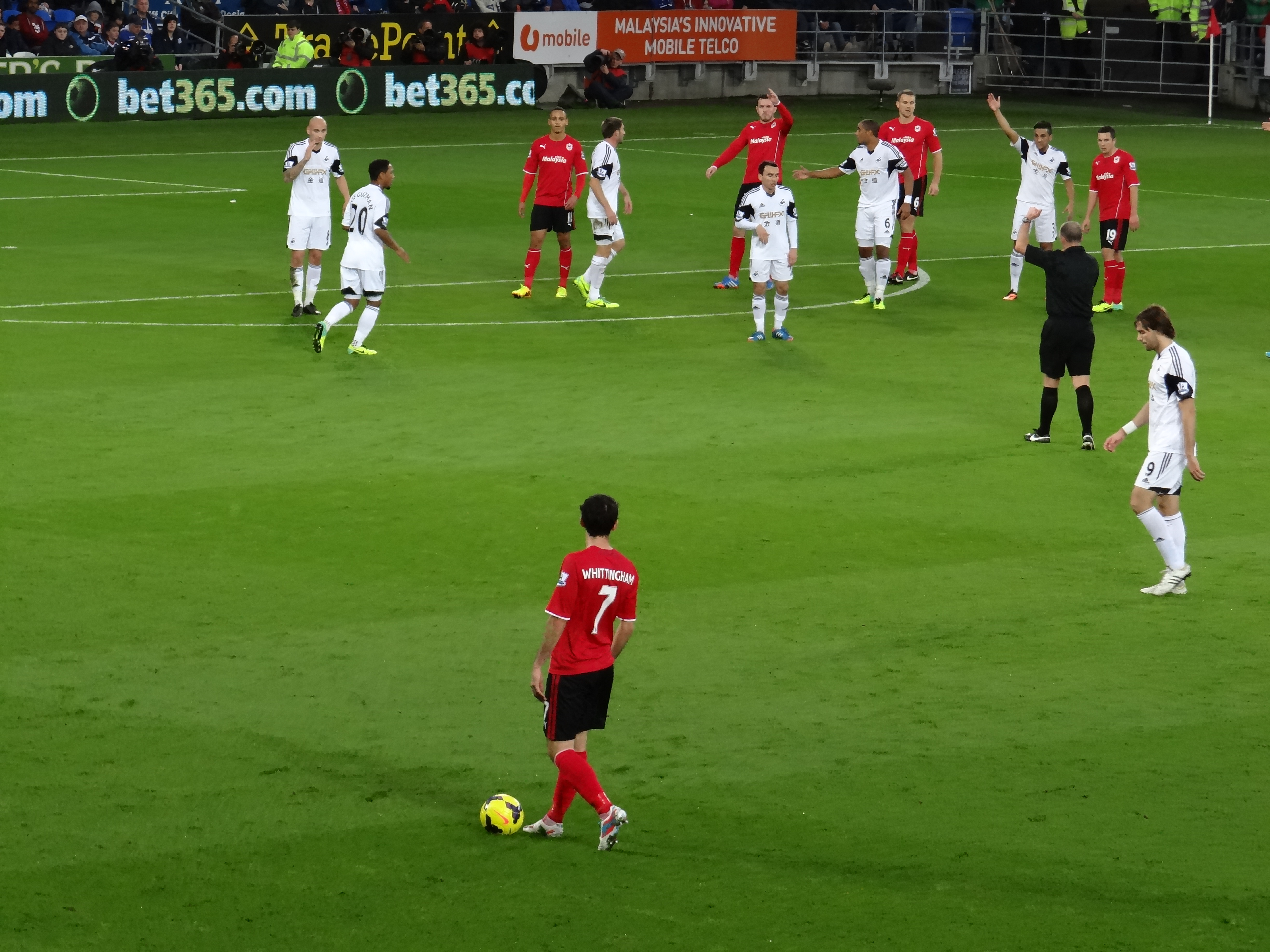 Action from the November 2013 South Wales derby.